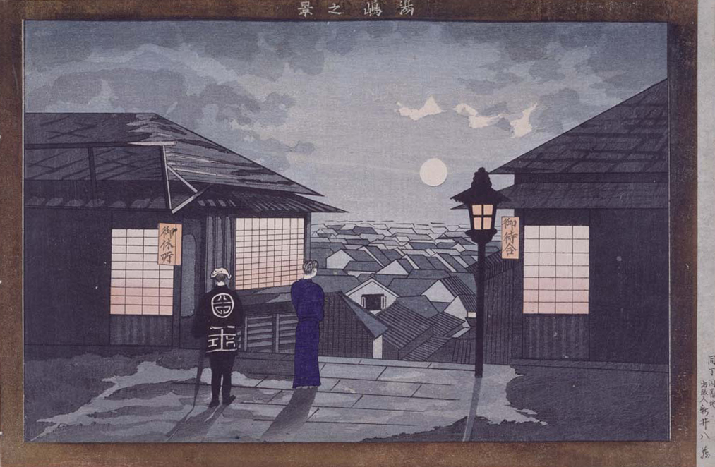 "The view of Yushima" Night, Moonlight, roomlight, man and woman.